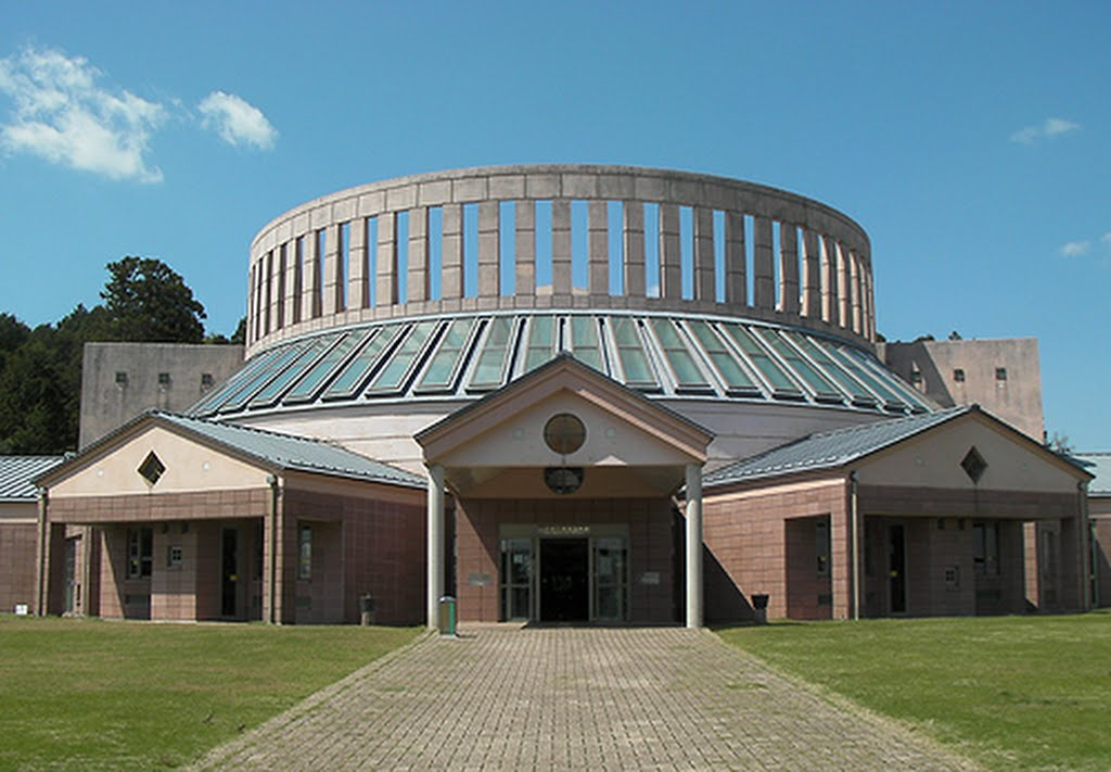 This is Mito city Seibu library in Mito, Ibaraki, Japan.